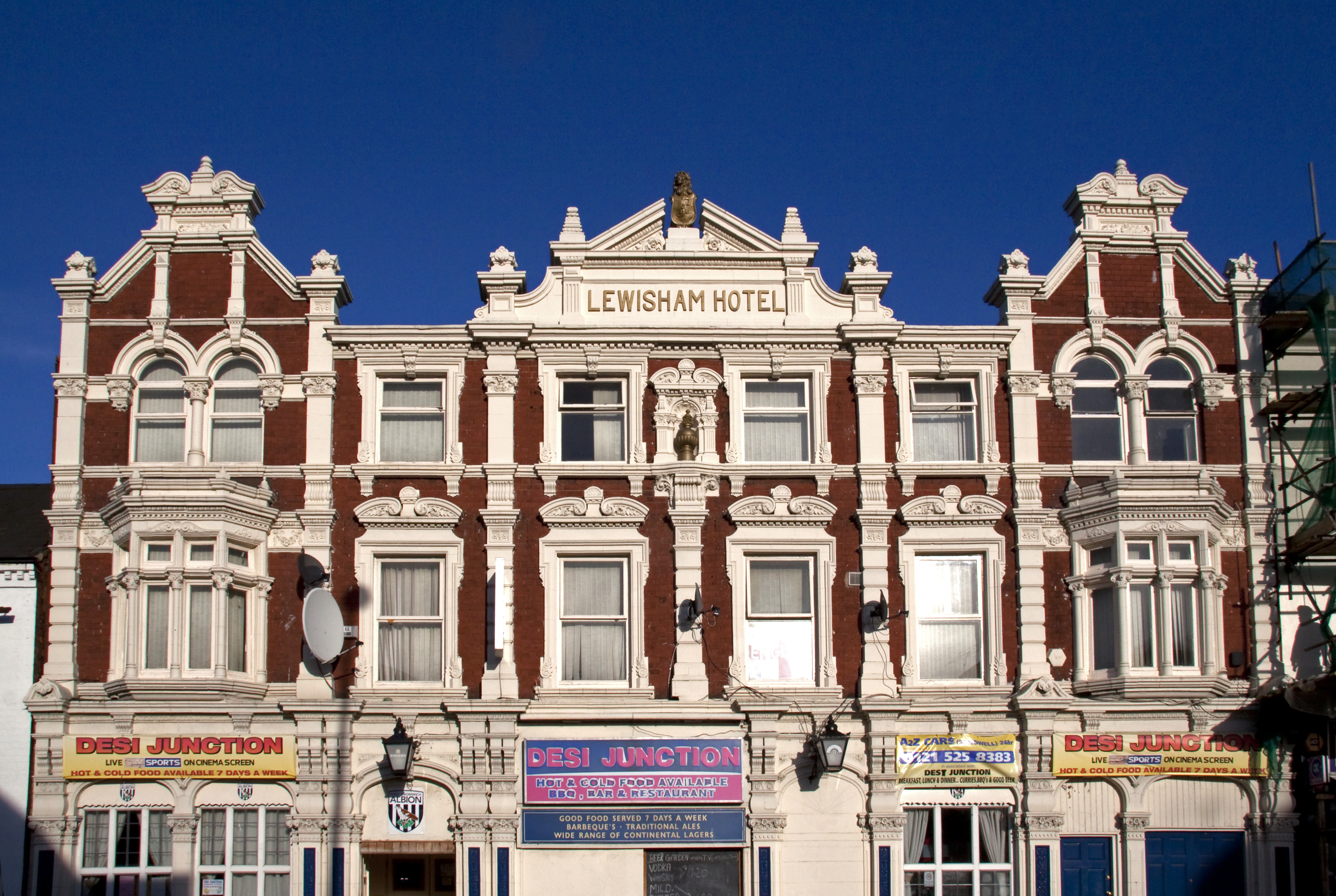 The Lewisham Hotel and Pub, originally the home of Lewisham Brewery started by Arthur James Price.